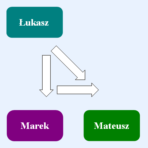 Synoptic Problem according to Vogel